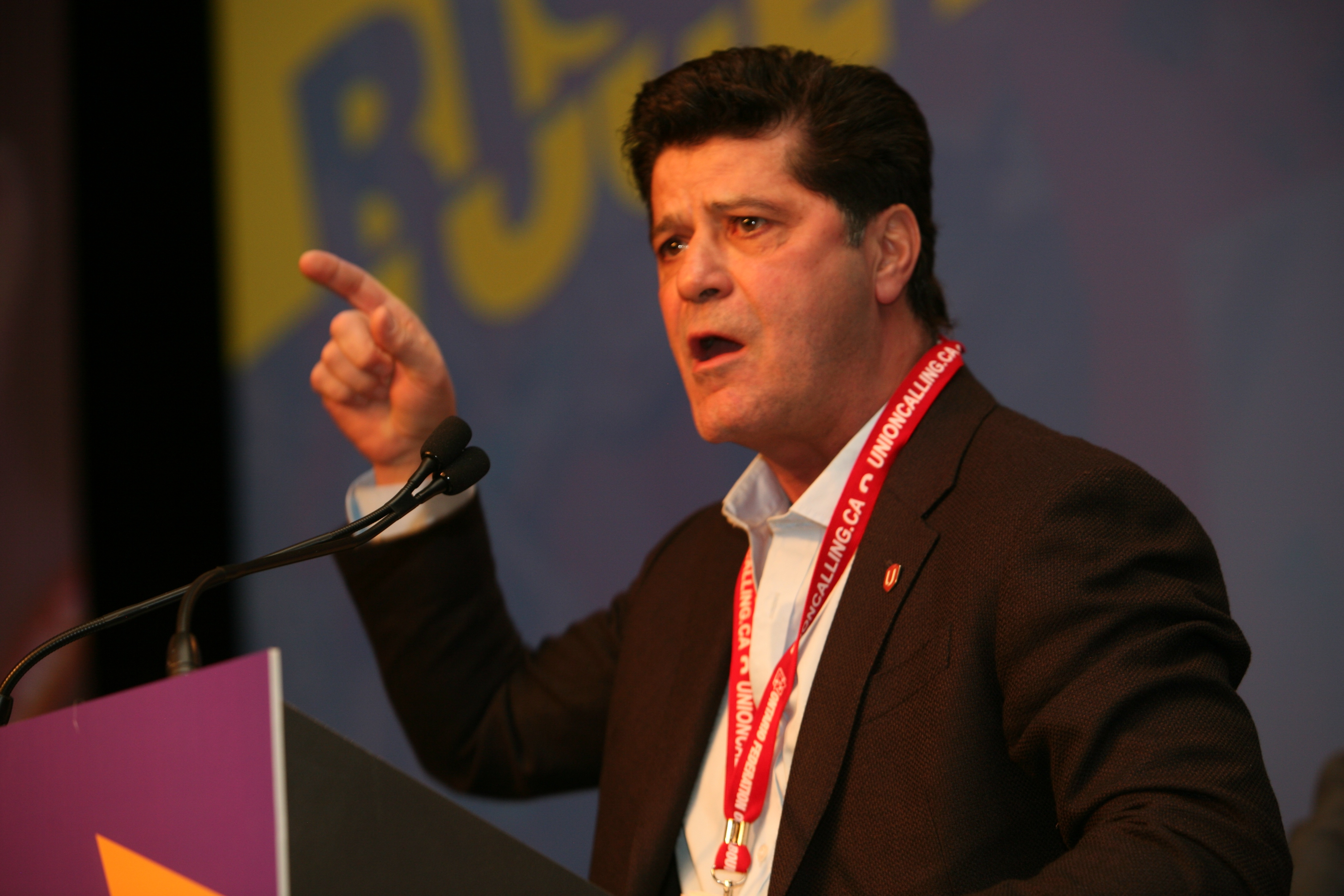 Unifor president Jerry Dias addressing the Ontario Federation of Labour convention on November 26, 2013